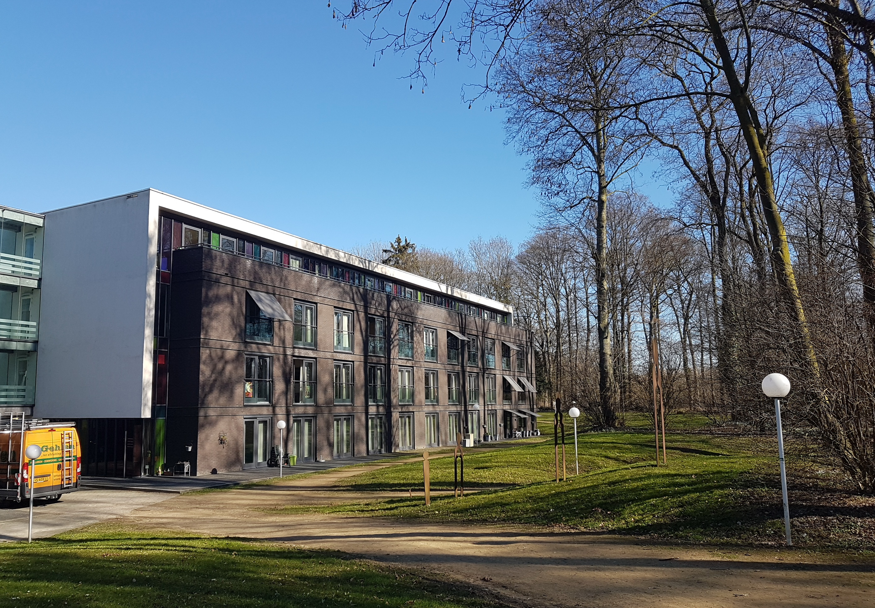 View of Croonenhoff, a care home and apartments for the elderly in Vroendaal in Maastricht South-East, Netherlands.